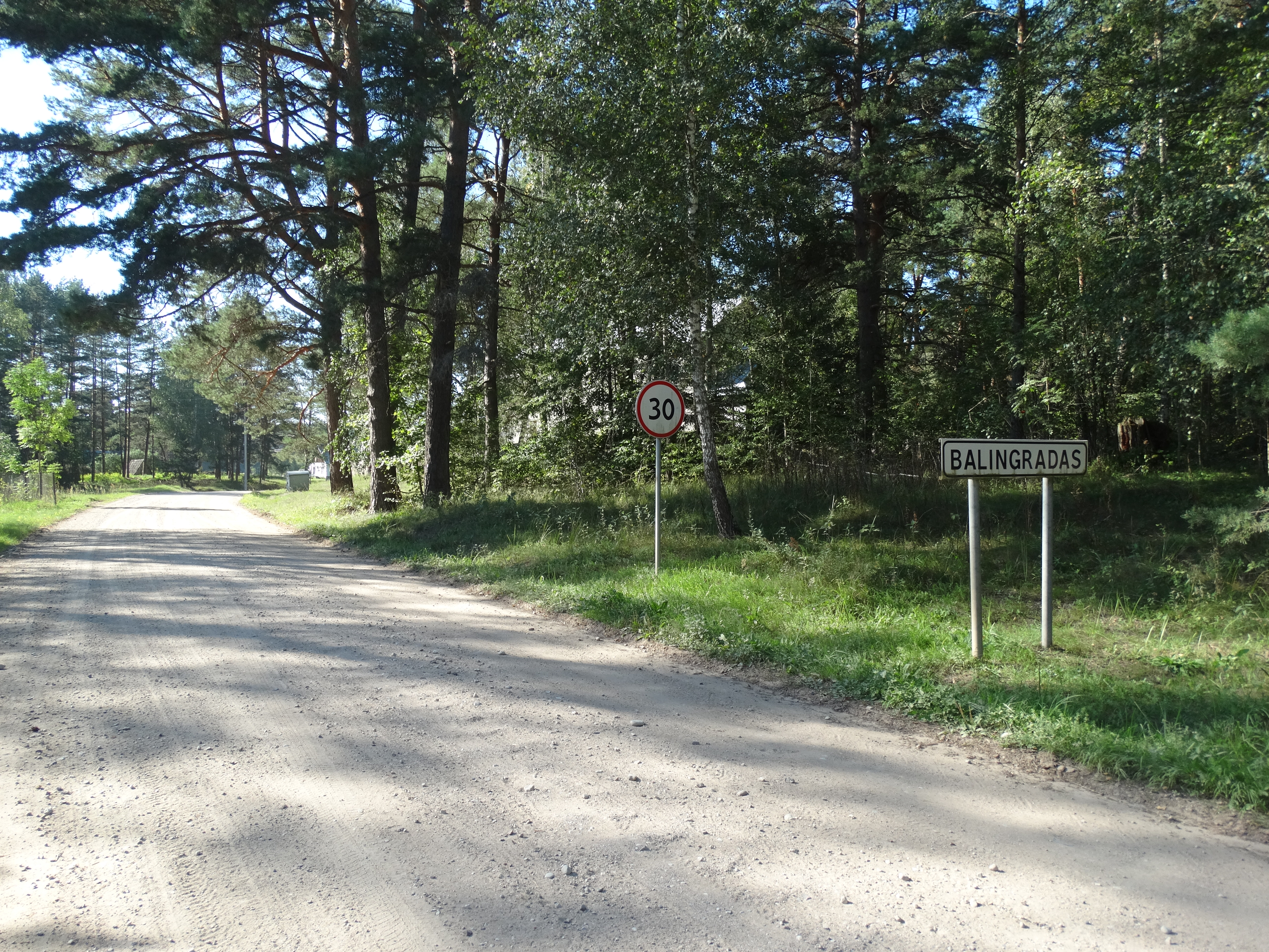 Balingradas, Švenčionys District, Lithuania